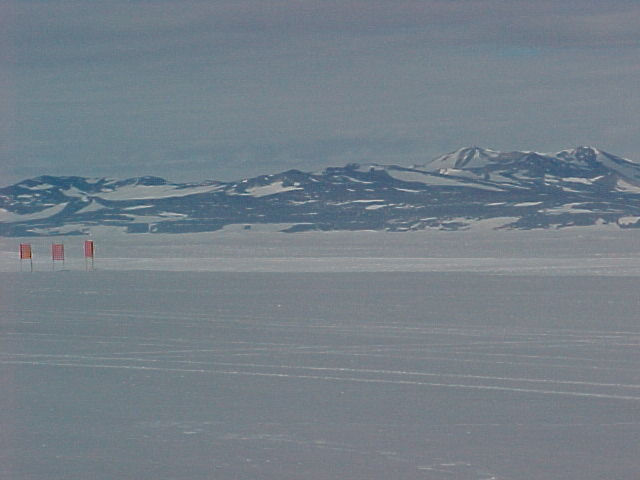 Taken from the US House of Reps website [1]. Cropped, converted to .png and back again by user.